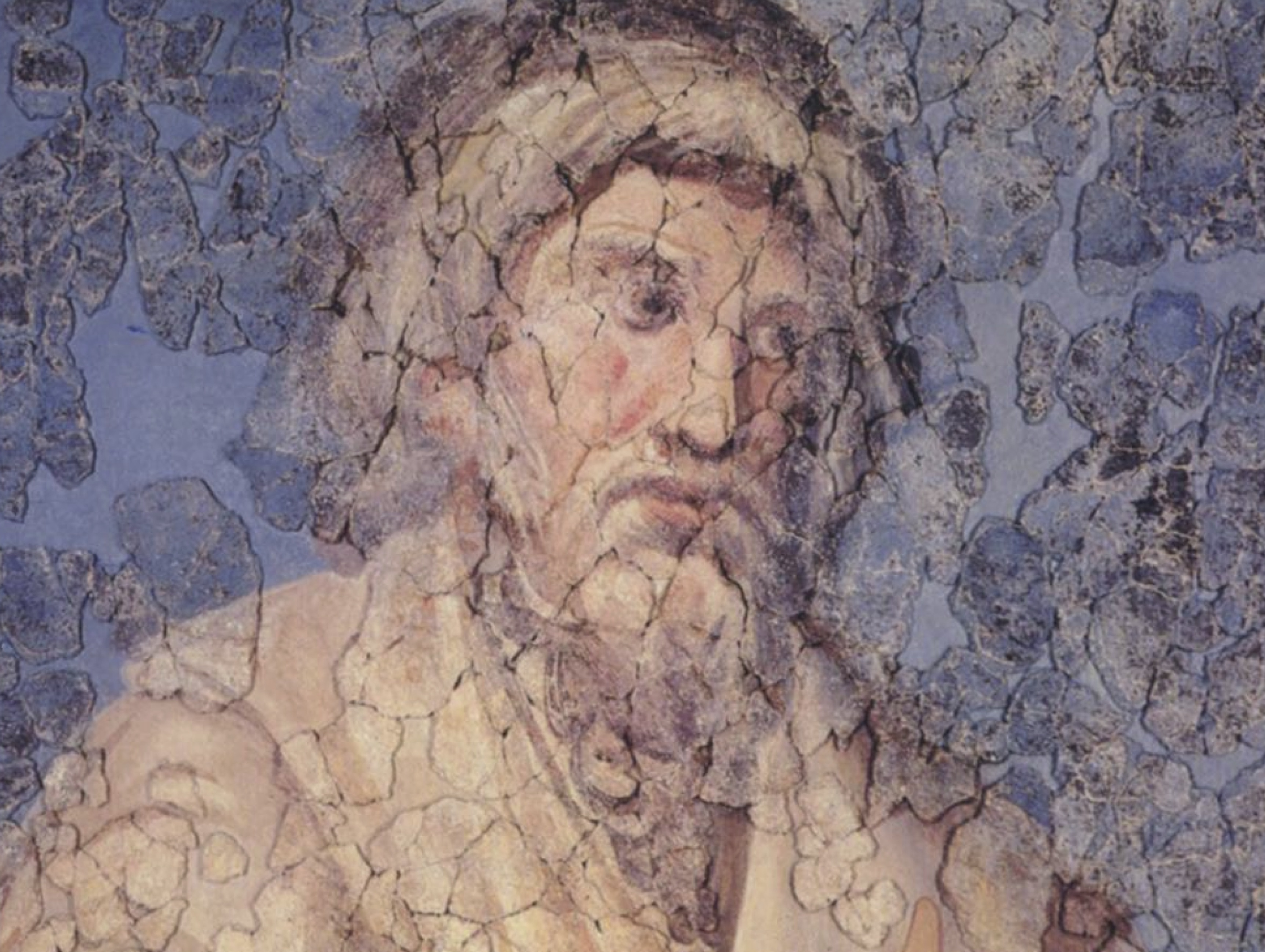 Restoration of a late antique ceiling painting, depicting prose writer Apuleius. Bischöfliches Museum (Bishop's Museum), Trier. "Museum - Konstantinische Deckenmalerei"